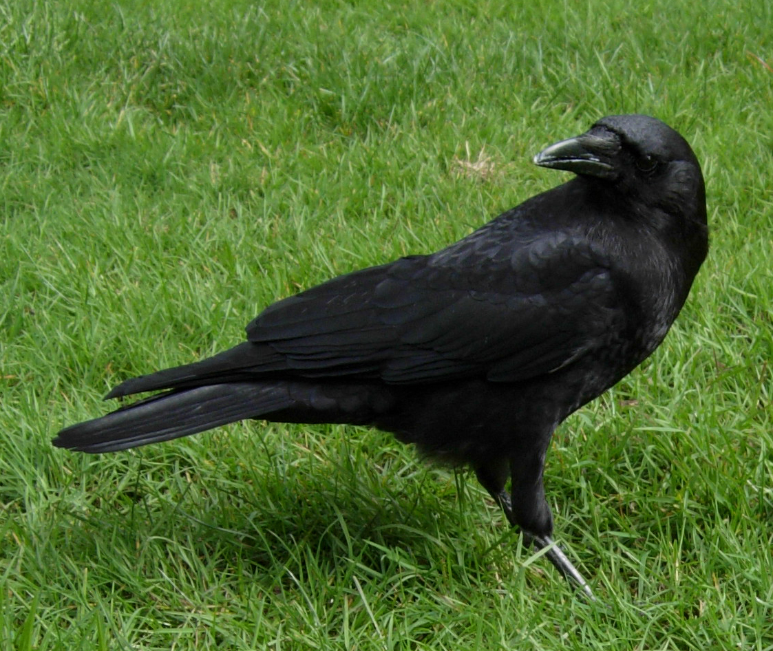 Corvus caurinus, Vancouver, British Columbia.